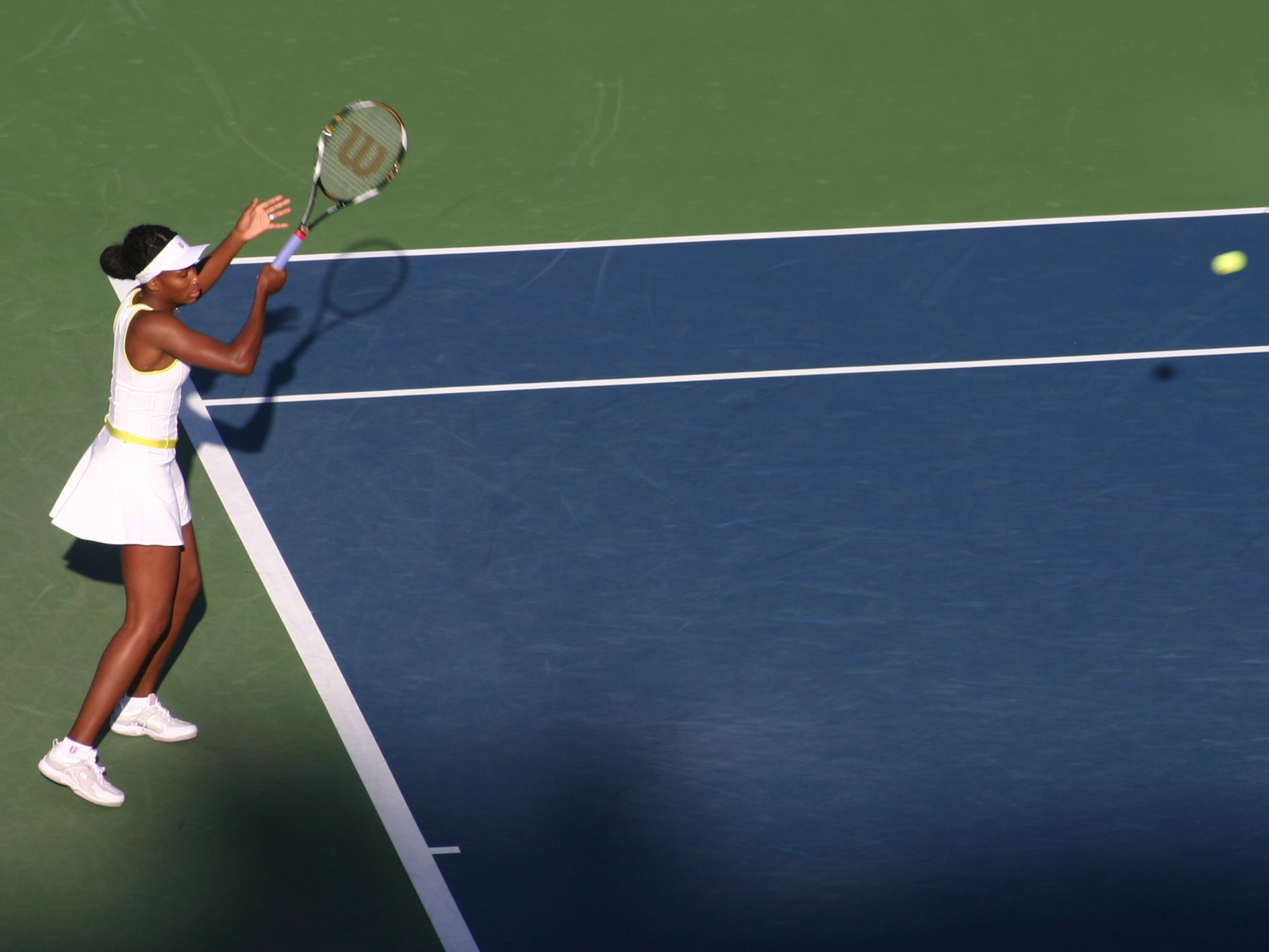 Venus Williams during her 4th round match against Radwanska